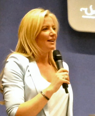 Portrait of Michelle presenting to Anglia Ruskin Uni. (Chelmsford) April 2013 "Building Business Success"